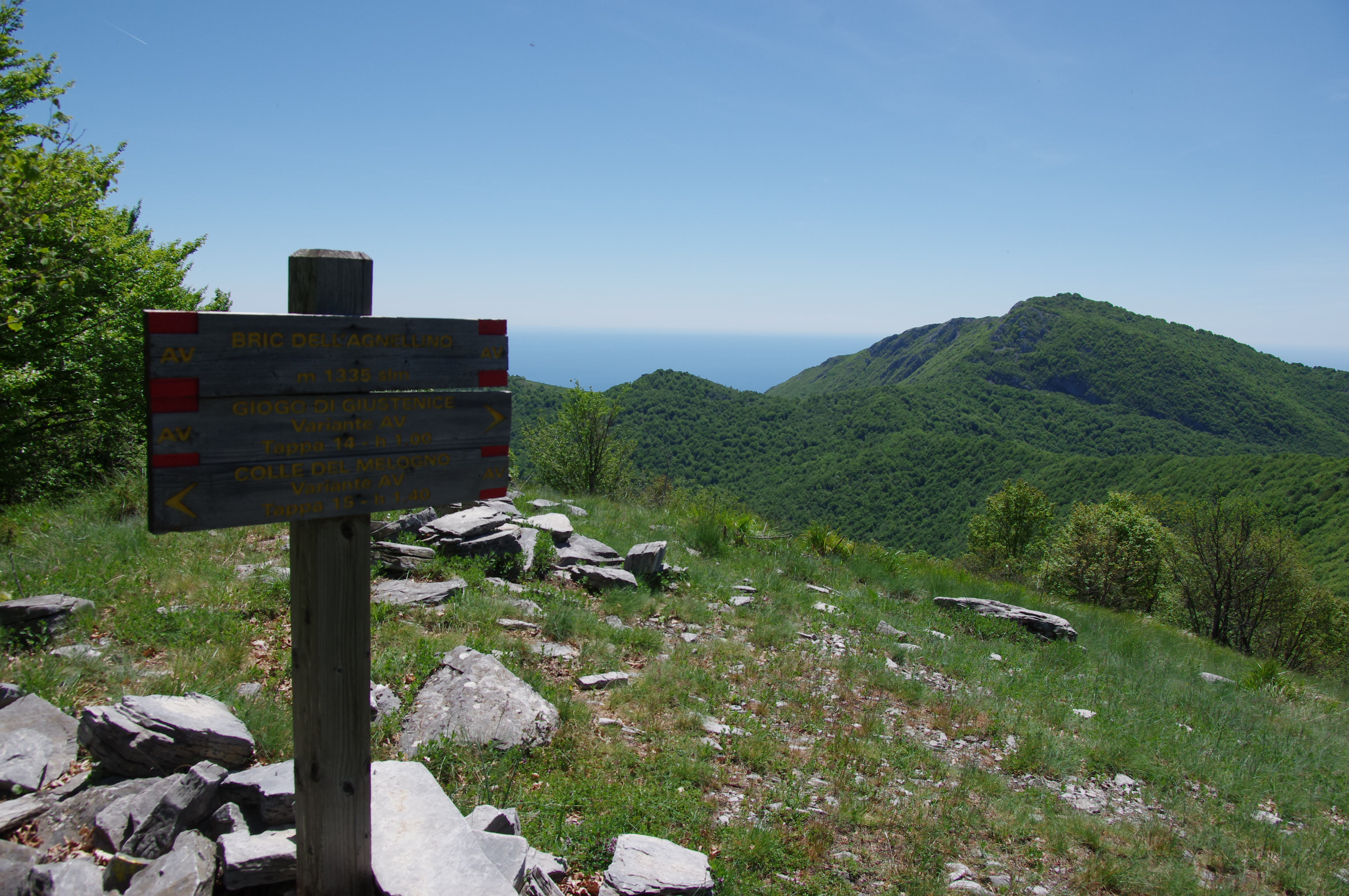 View from Bric Agnellino (1,335 m), Ligurian Alps, Liguria, Italy (background Monte Carmo di Loano and Ligurian Sea)